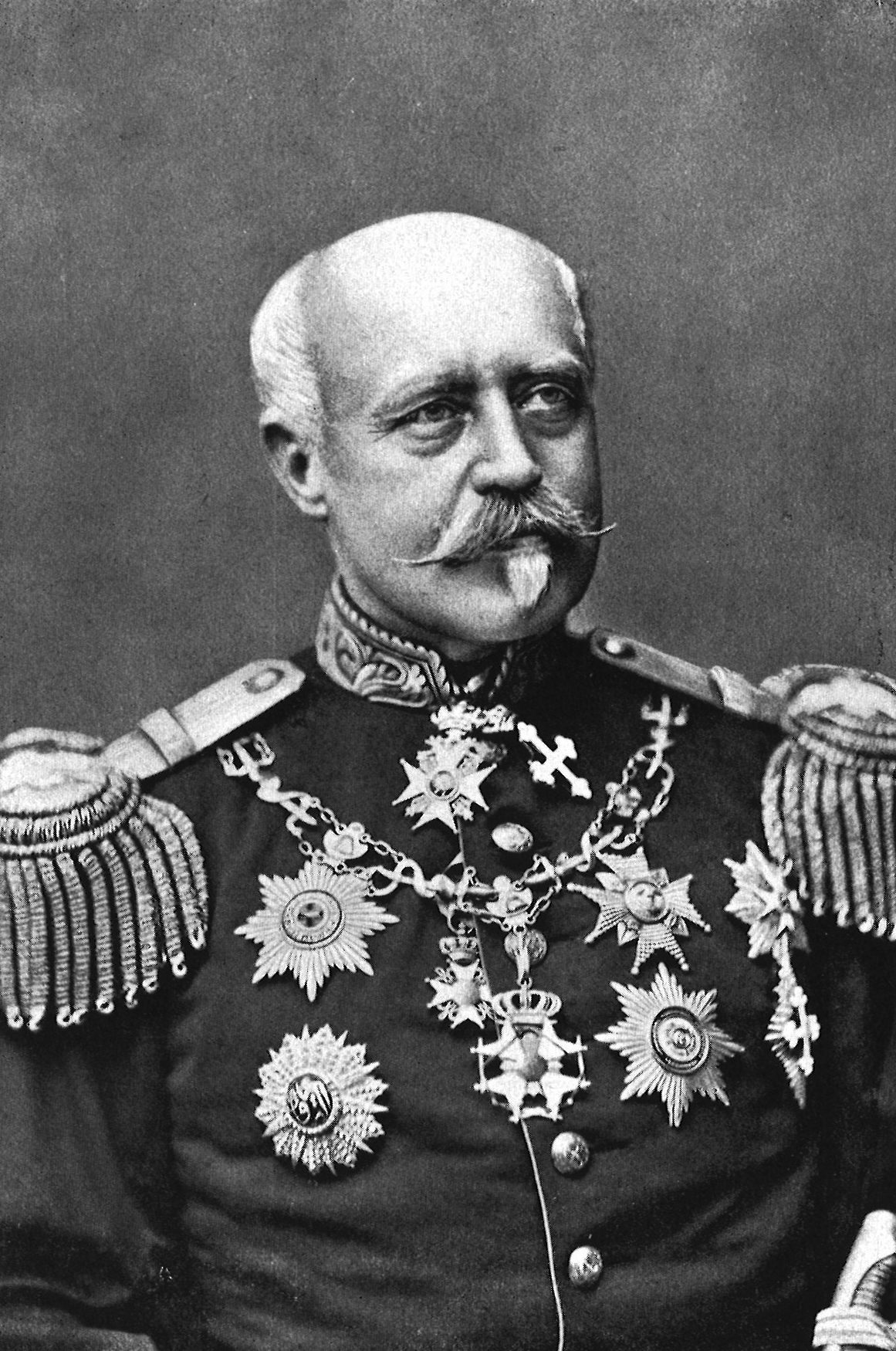 Carl Björnstjerna (1817-1888), Swedish count, courtier, officer and member of Parliament.